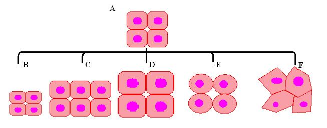 Non-neoplasia. A: Normal cells, B: Atrophy, C: Hyperplasia, D: Hypertrophy, E: Metaplasia and F: Dysplasia. Hematoxylin eosino staining.